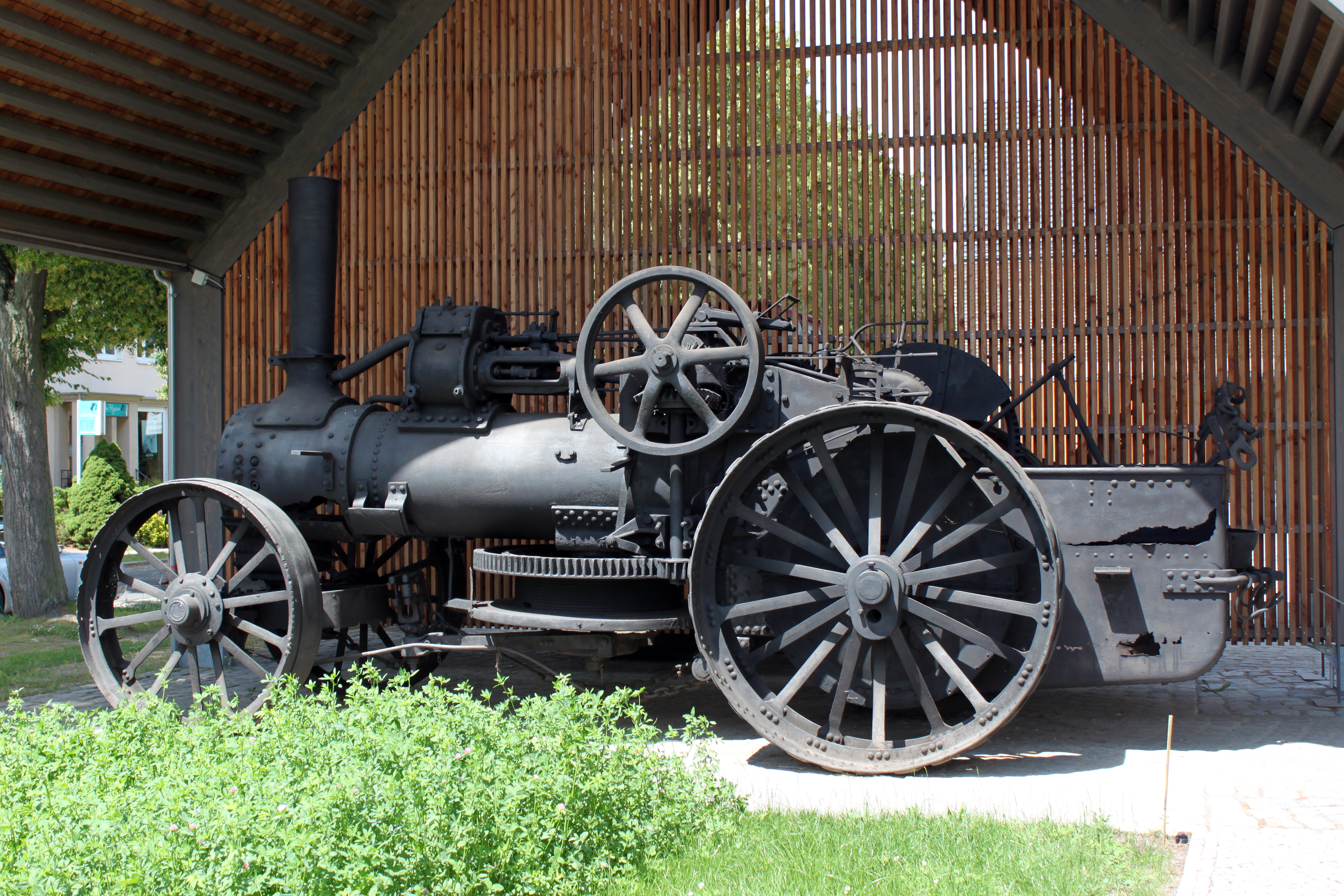 Steam plow locomobile the company Heucke, built in 1900 (Agricultural Museum Wandlitz, Brandenburg, Germany)